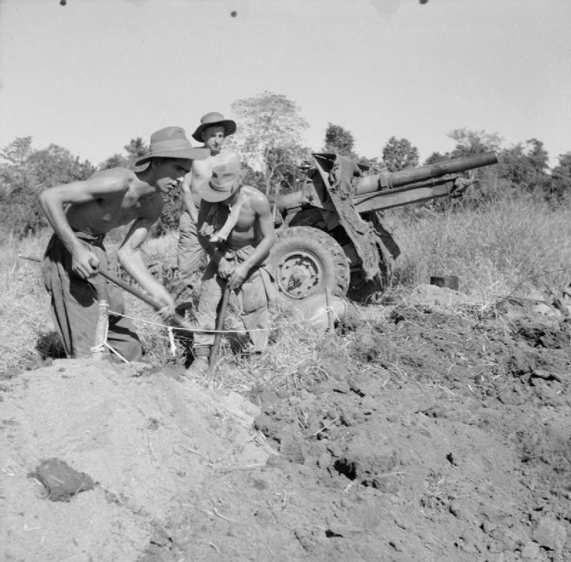 The British Army in Burma 1945 Men of 36th Infantry Division dig a gun pit for their 25-pdr field gun before taking up position by the Shweli River, February 1945.